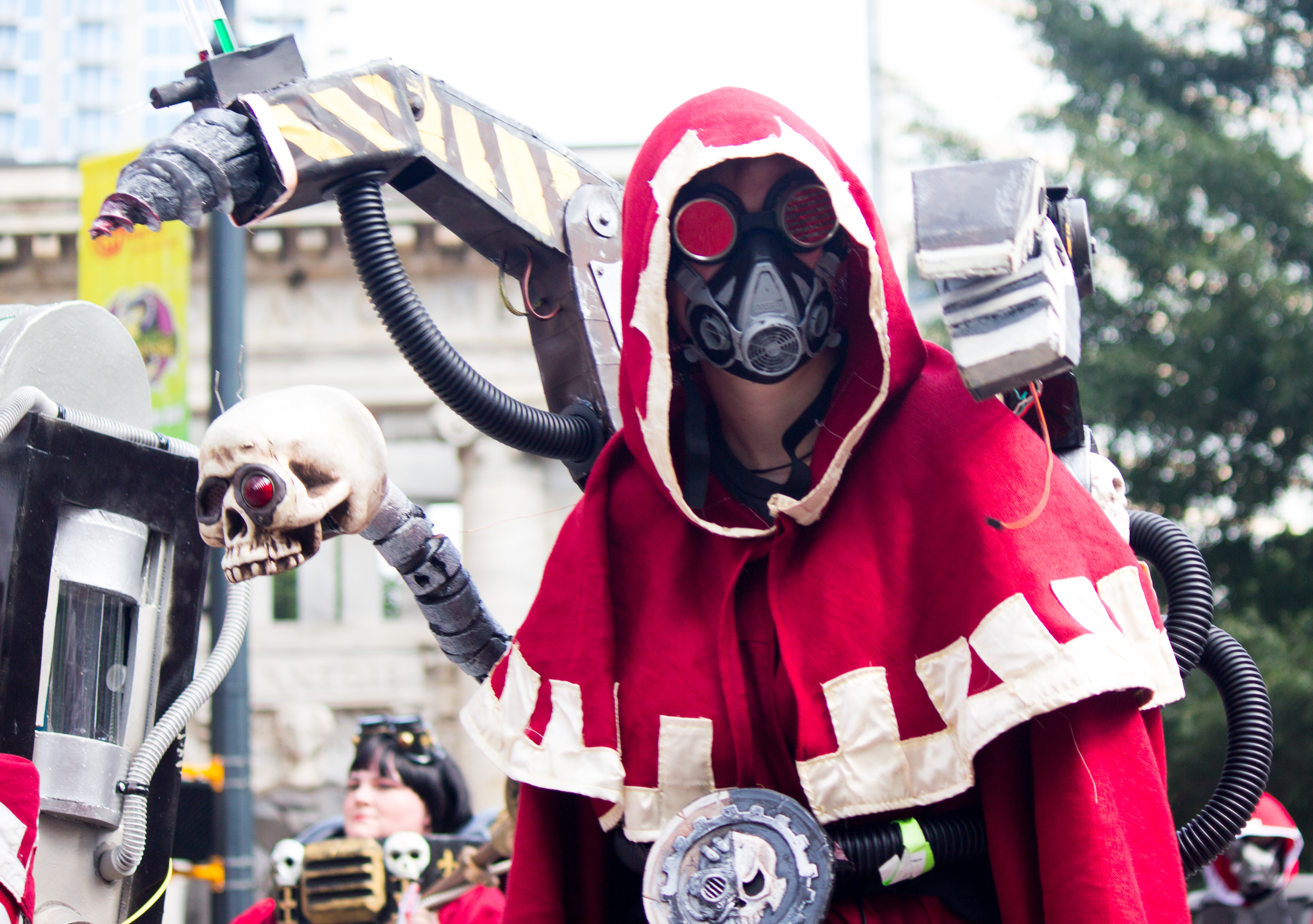 Cosplay of an Adeptus Mechanicus techpriest (from Warhammer 40,000) in the 2013 Dragon*Con parade through Atlanta.